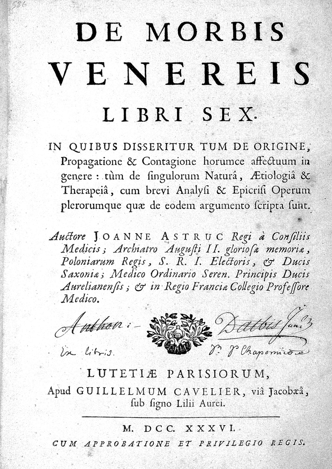 Title page. Rare Books Keywords: Jean Astruc